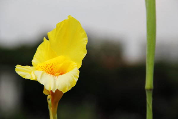 I'm a perennial plant with many branches and green leaf sheath. We enjoy humid and warm environment and gardeners get new our new plants by tuber or seeding